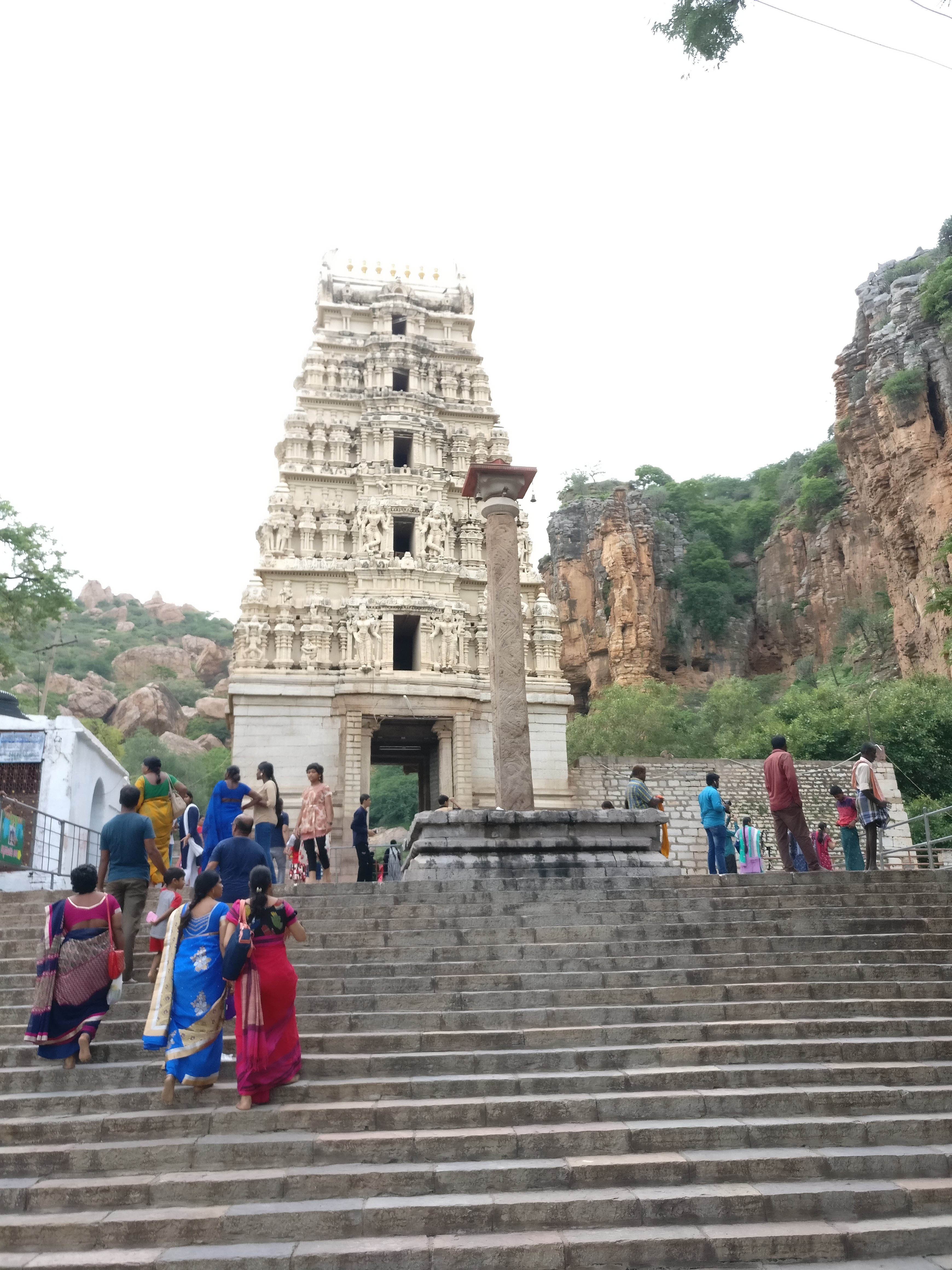 Main gopuram and stupa of yaganti temple